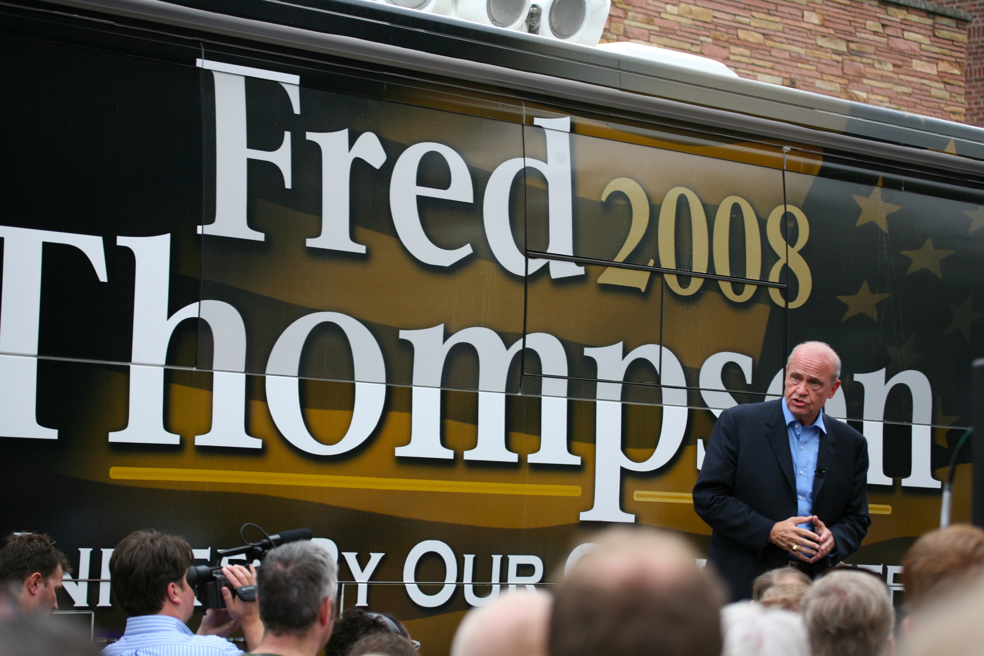 Fred Thompson and his campaign bus. Taken in 2007 during his presidential campaign for 2008.